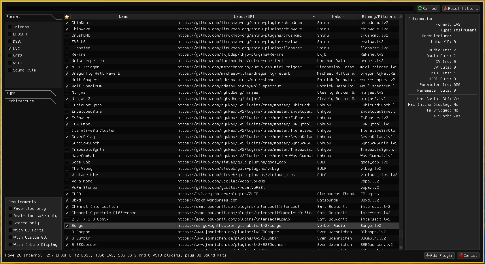 A selection of LV2 plugins viewed from within the Carla host